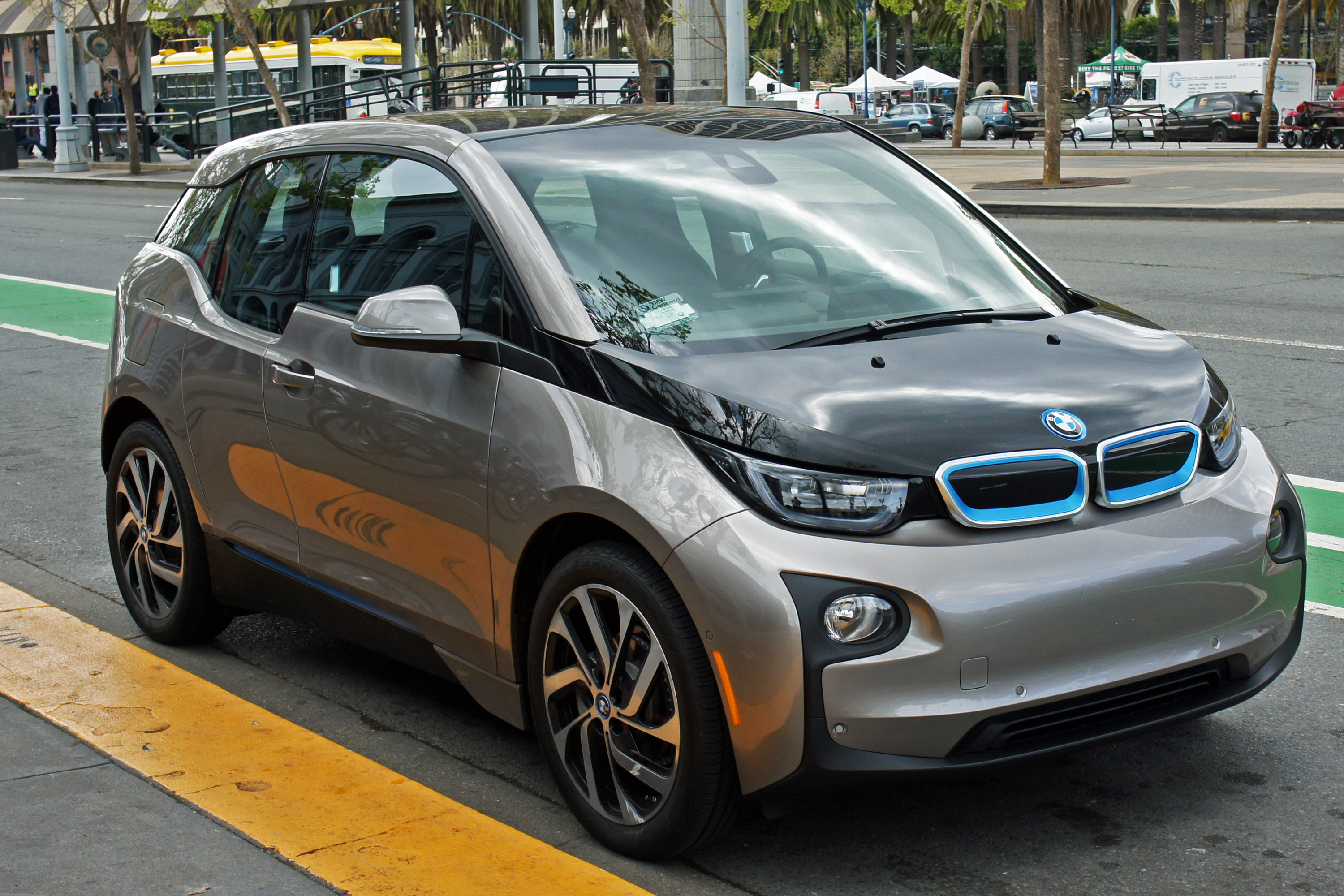 BMW i3 electric car, Embarcadero, San Francisco, California